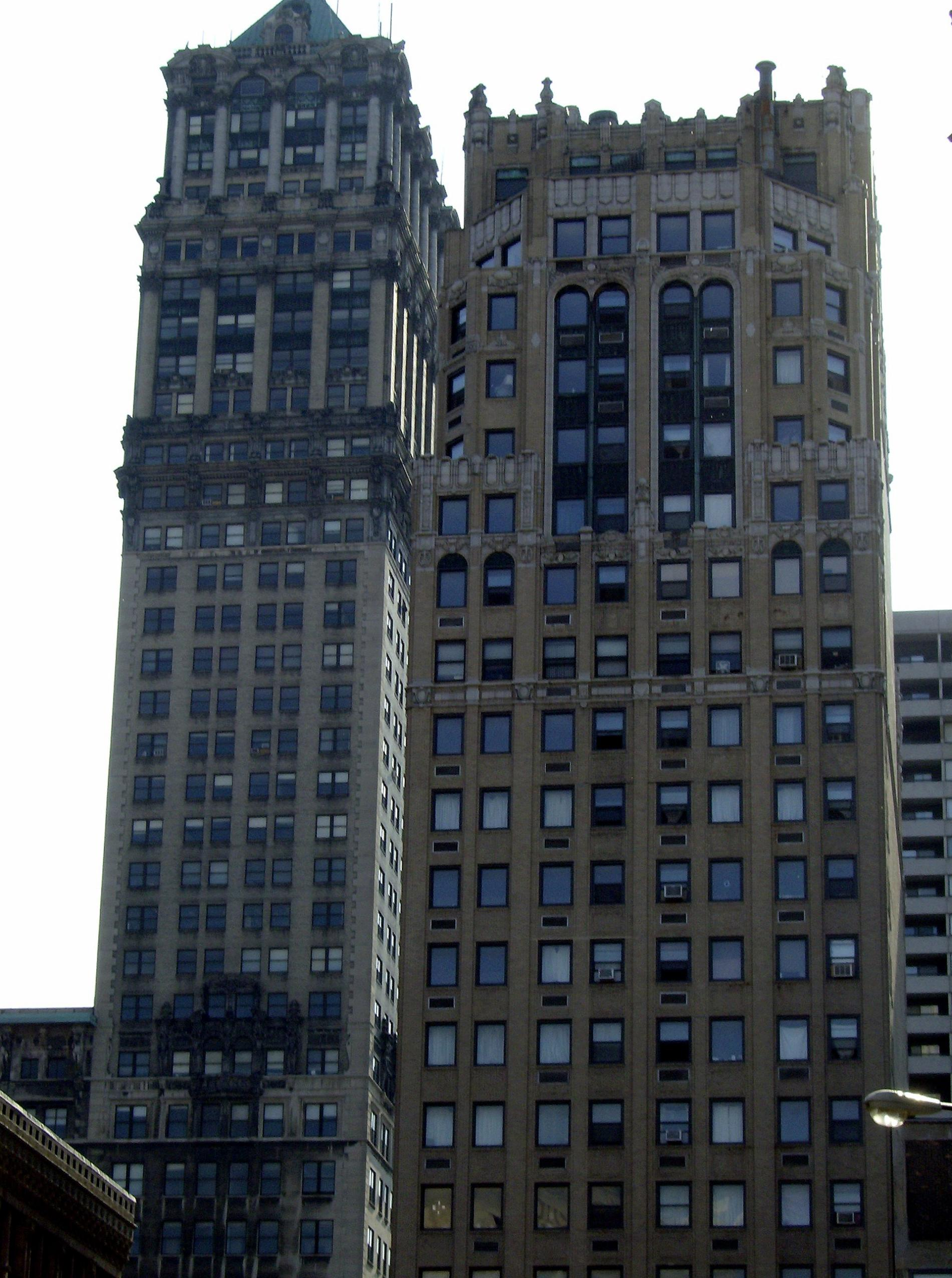 Industrial Apartments Building, with the Book Tower in the background, Detroit, Michigan